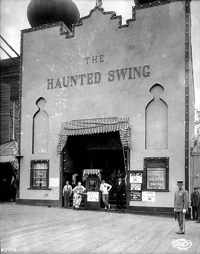 Haunted Swing, Pay Streak, Alaska Yukon Pacific Exposition, Seattle, Washington, 1909. Photographer: Nowell, Frank H., 1864-1950 Subjects (LCSH): Haunted Swing (Seattle, Wash.) Amusement rides--Washington (State)--Seattle Pay Streak (Seattle, Wash.) Alaska-Yukon-Pacific Exposition (1909 : Seattle, Wash.) Exhibitions--Washington (State)--Seattle Digital Collection: Alaska-Yukon-Pacific Exposition Collection Item Number: AYP601 Persistent URL: 600 University of Washington Libraries. Digital Collections [#//content.lib.washington.edu%20